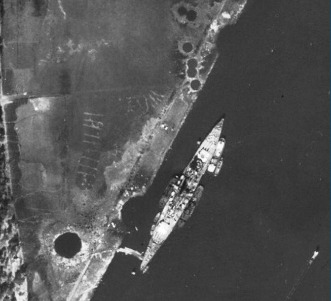 The German cruiser Lützow, damaged by British bombers, in the Kaiserfahrt canal (today Kanał Piastowski) in western Pomerania, Germany (today Poland), on 25 April 1945.